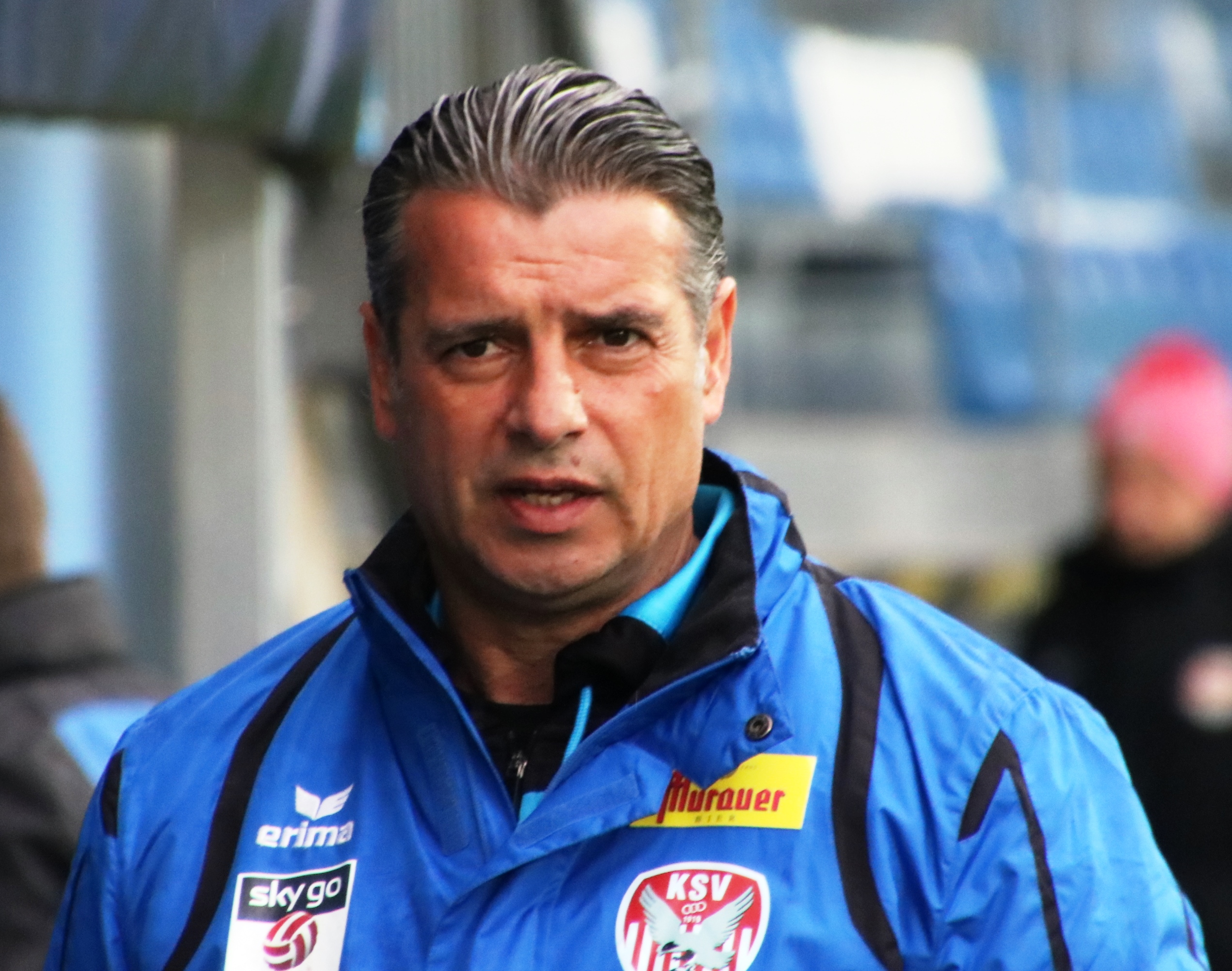 league match Austria 2nd league